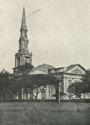 St. Andrew's Church was completed in 1821, and has been described as "perhaps the noblest Christian edifice in Hindustan."